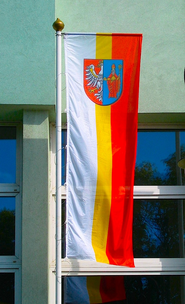 The flag of Chrzanów County